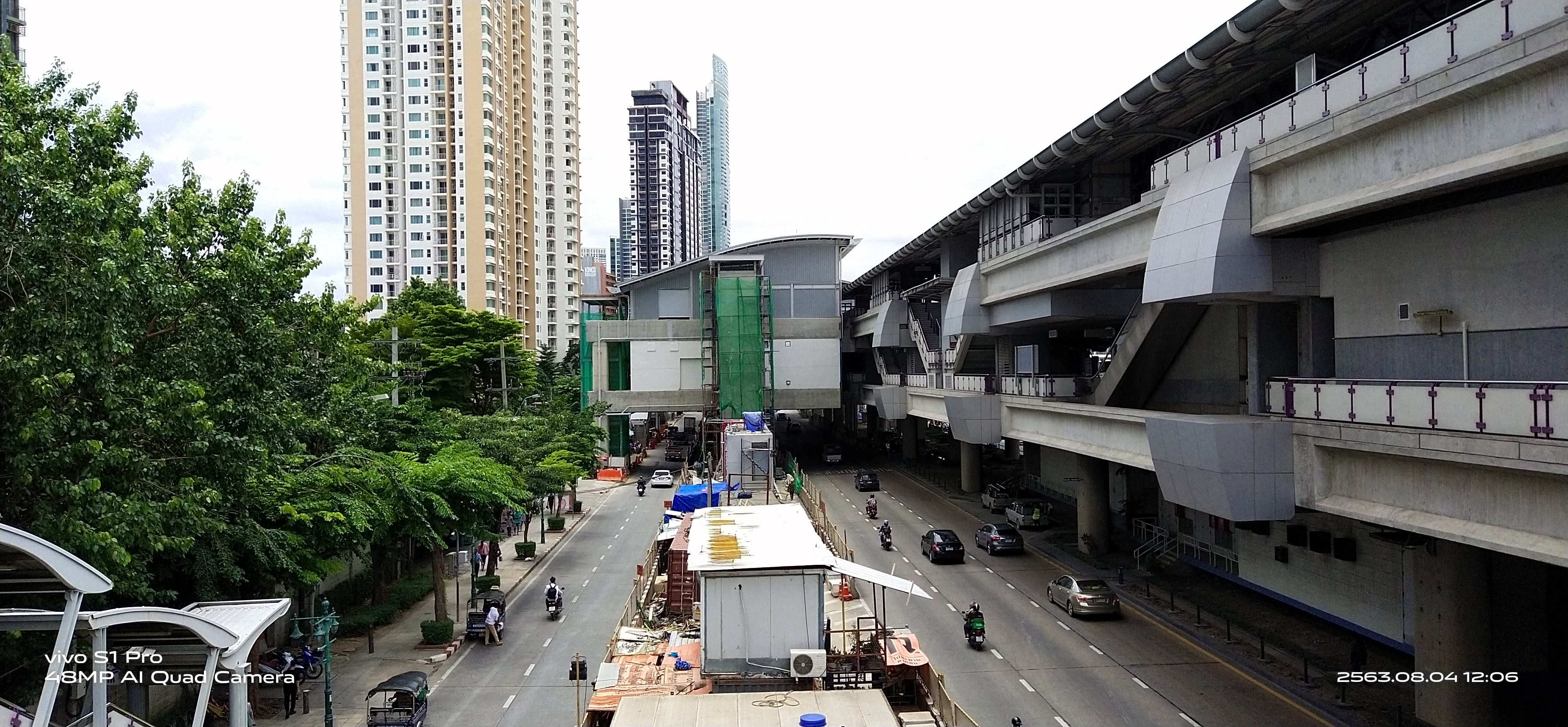 Krung Thon Buri station (Silom line and Gold line)